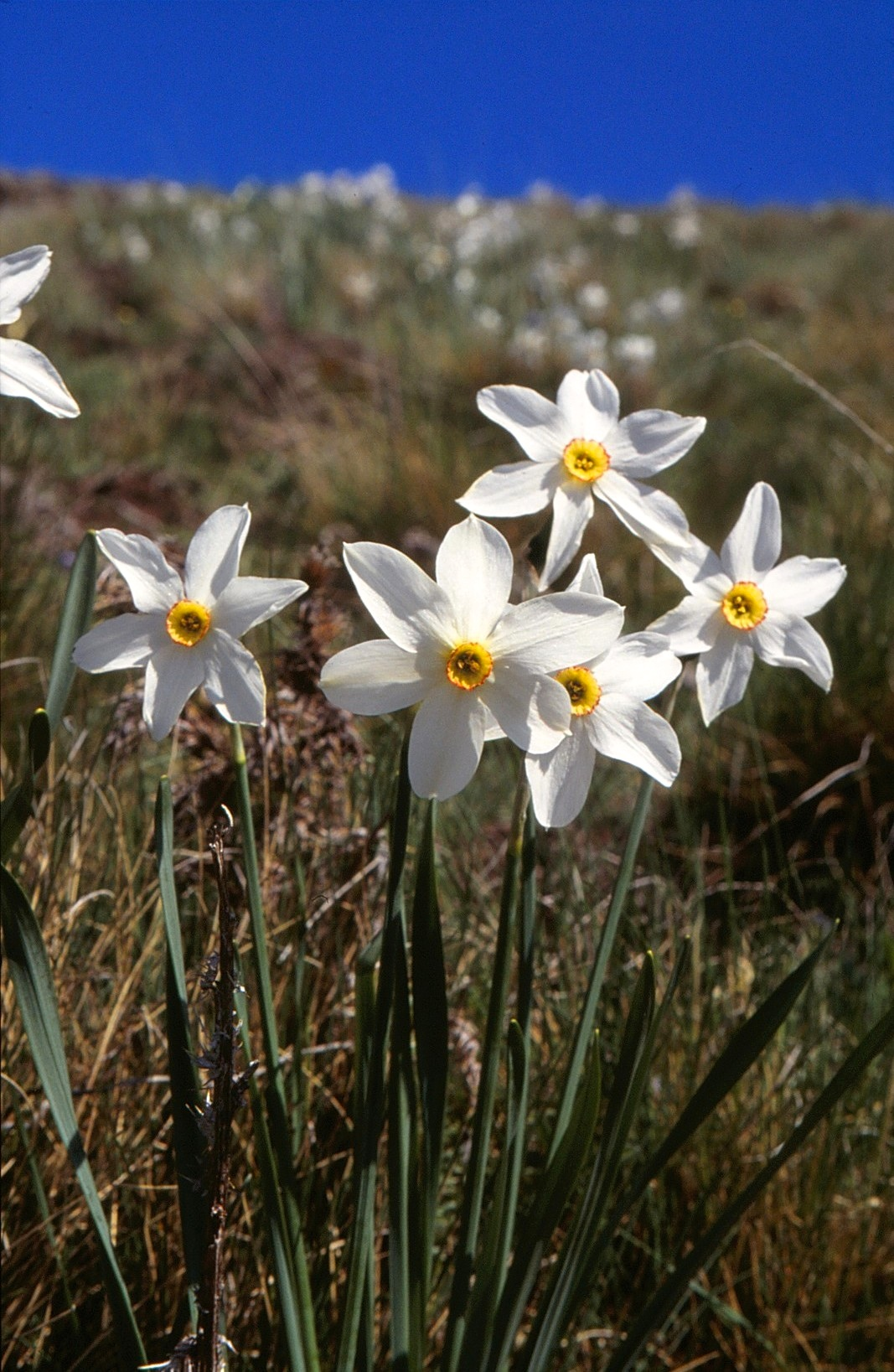 This is a photography of Natura 2000 protected area with ID GR2130002